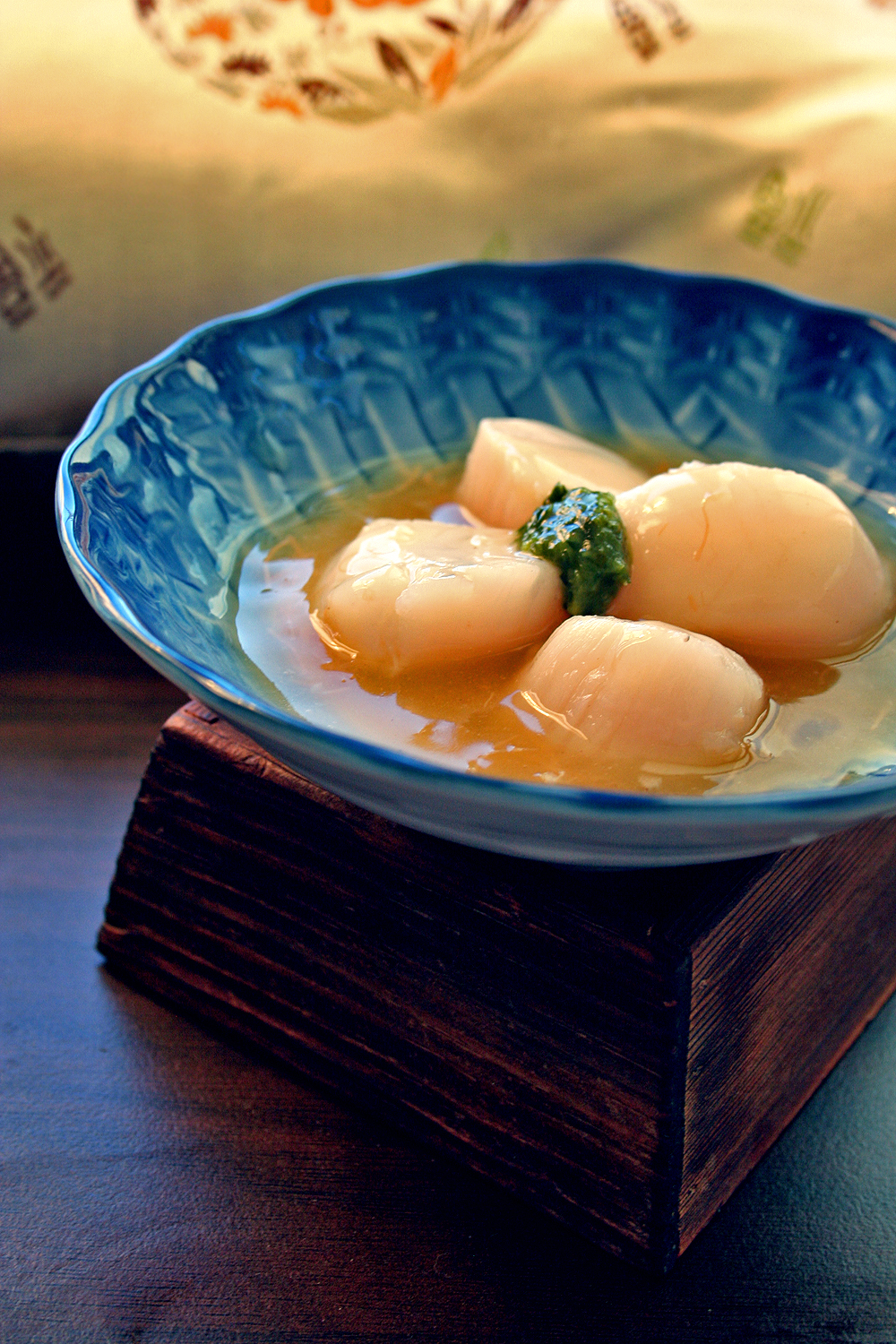 Taiwanese Steamed Scallops in Abalone Sauce